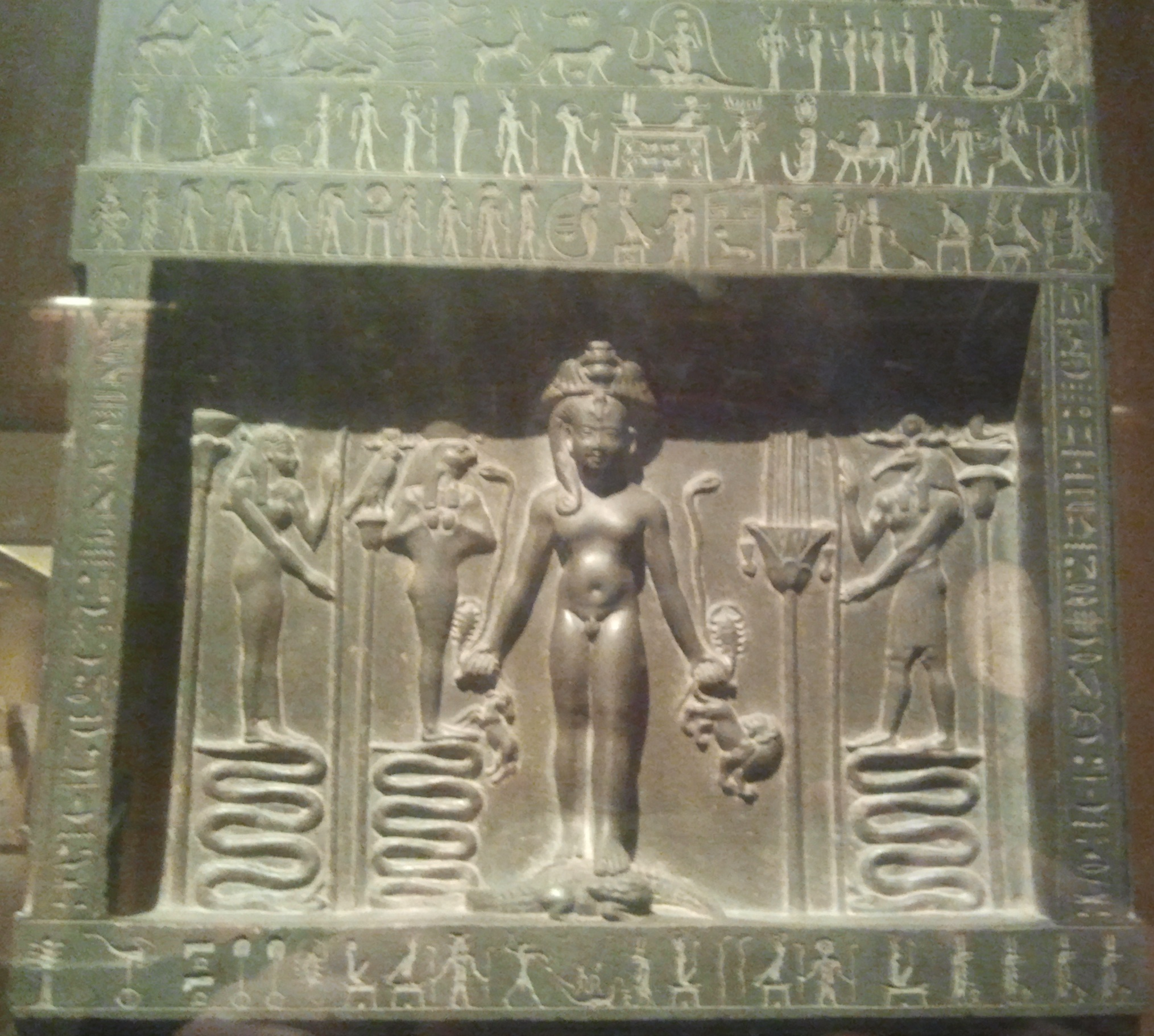 Detail of the Metternich stela, at the Metropolitan Museum of Art, in New York City. The relief shows the child Horus trampling on crocodiles and holding two serpents, two scorpions, an oryx, and a lion.